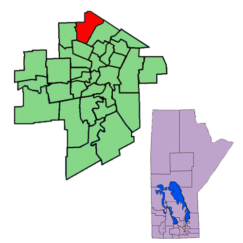 The 1998-2011 boundaries for The Maples electoral district highlighted in red